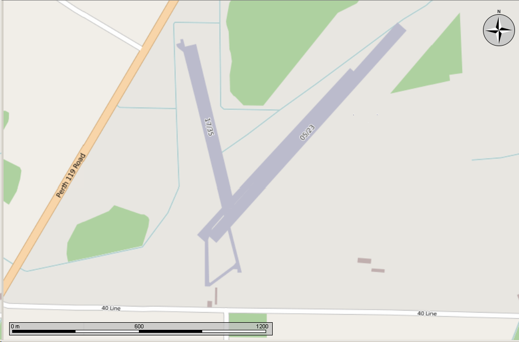 Map of the Stratford Municipal Airport. Open Street Map from the Marble program.